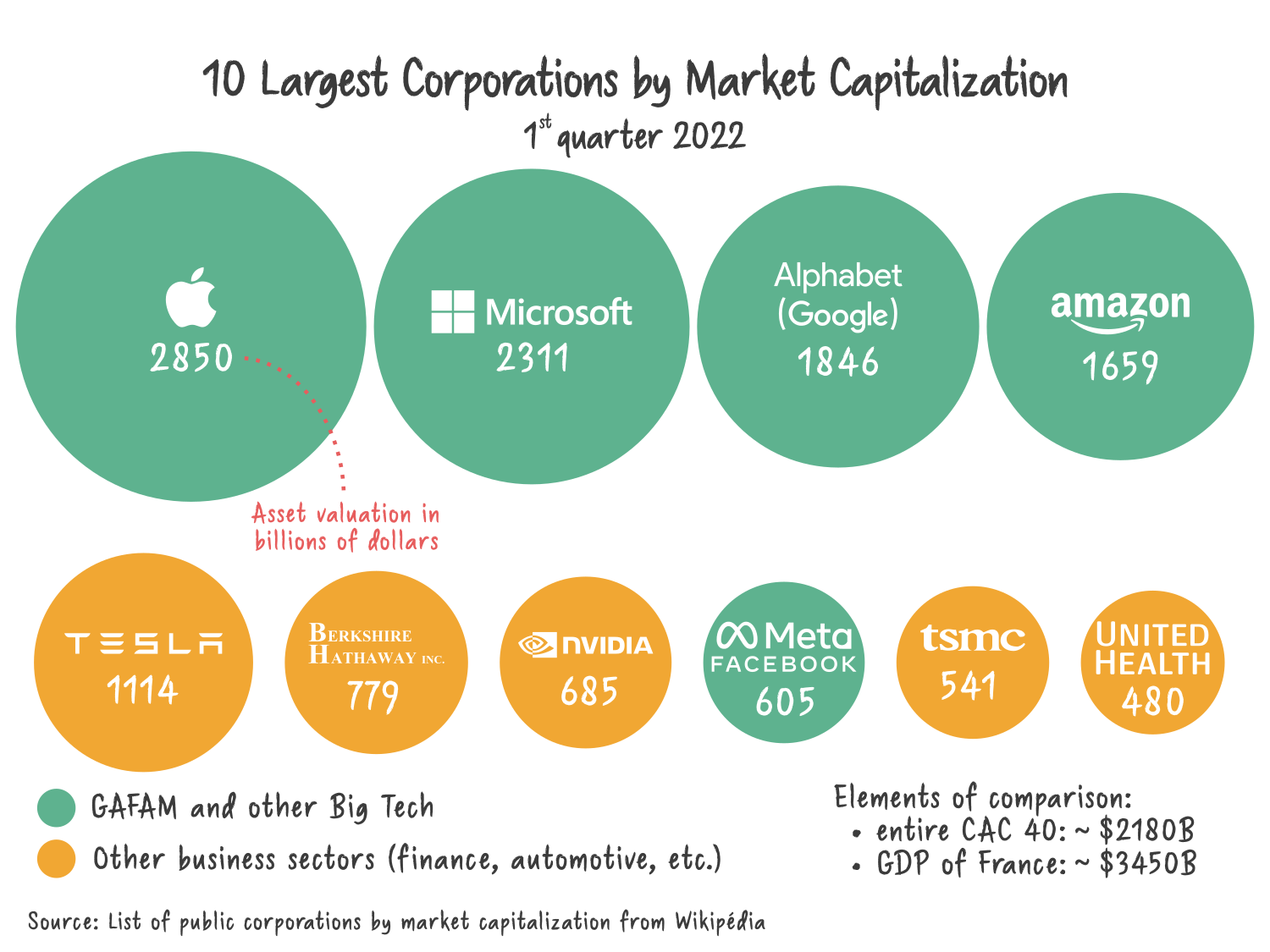 The economic weight of Big Tech